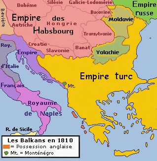 Historic map of Balkan peninsula, 1810